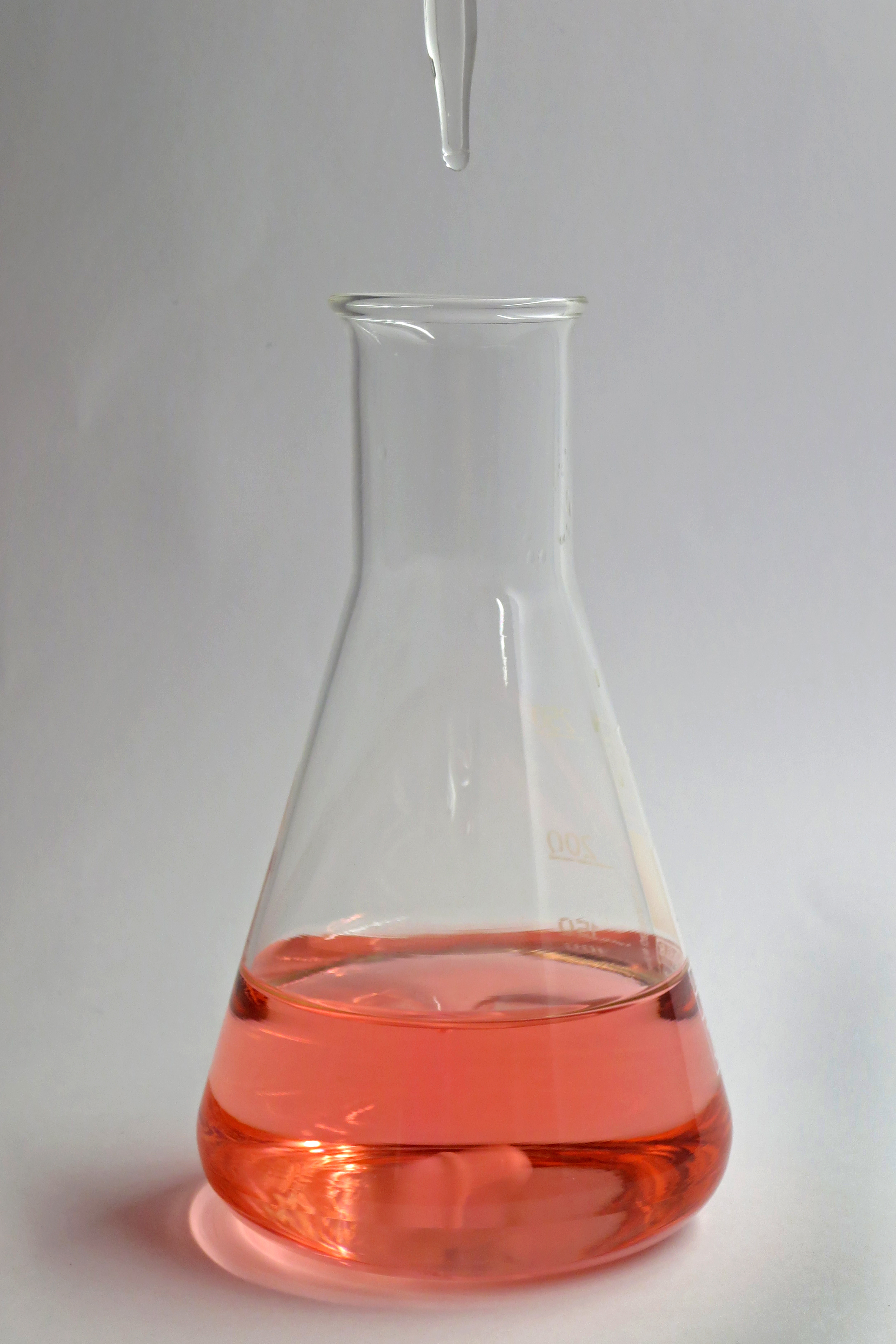 Titration methyl orange.